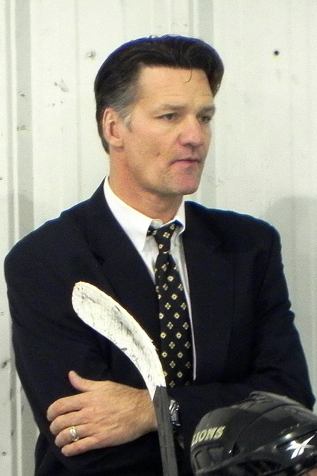 Rick Zombo coaching the Lindenwood Lions men's ice hockey team in November 2011.